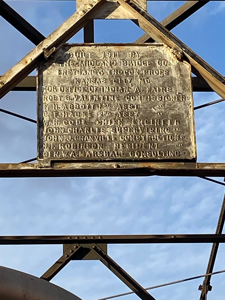 Historic Tanner's Suspension Bridge marker in Cameron, Arizona